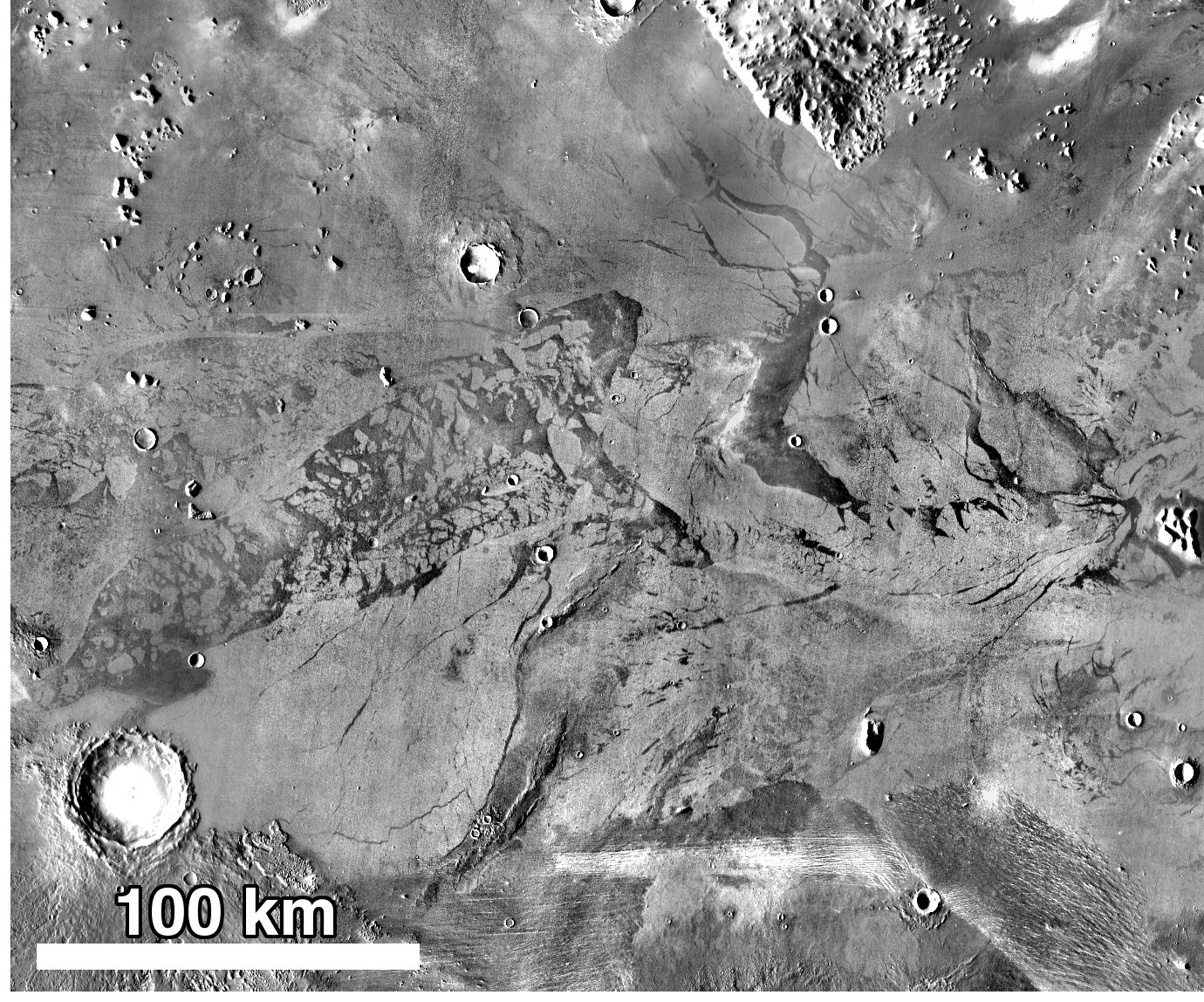 Daytime infrared mosaic of Cerberus Palus, Mars, captured by the THEMIS instrument.